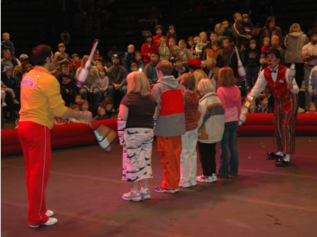 Juggling passes with clubs at the circus. Based on a page on a picture of toss juggling taken by Jim, owner of and released under CC-BY-3.0.